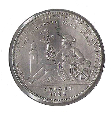 Reverse of historical taler of Bayern 1835. Original image was taken from image from german Wikipedia, which was scan and uploaded there